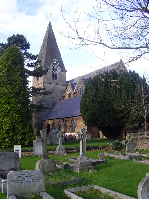 Farnsfield church Pretty churchyard worth a leisurely exploration.